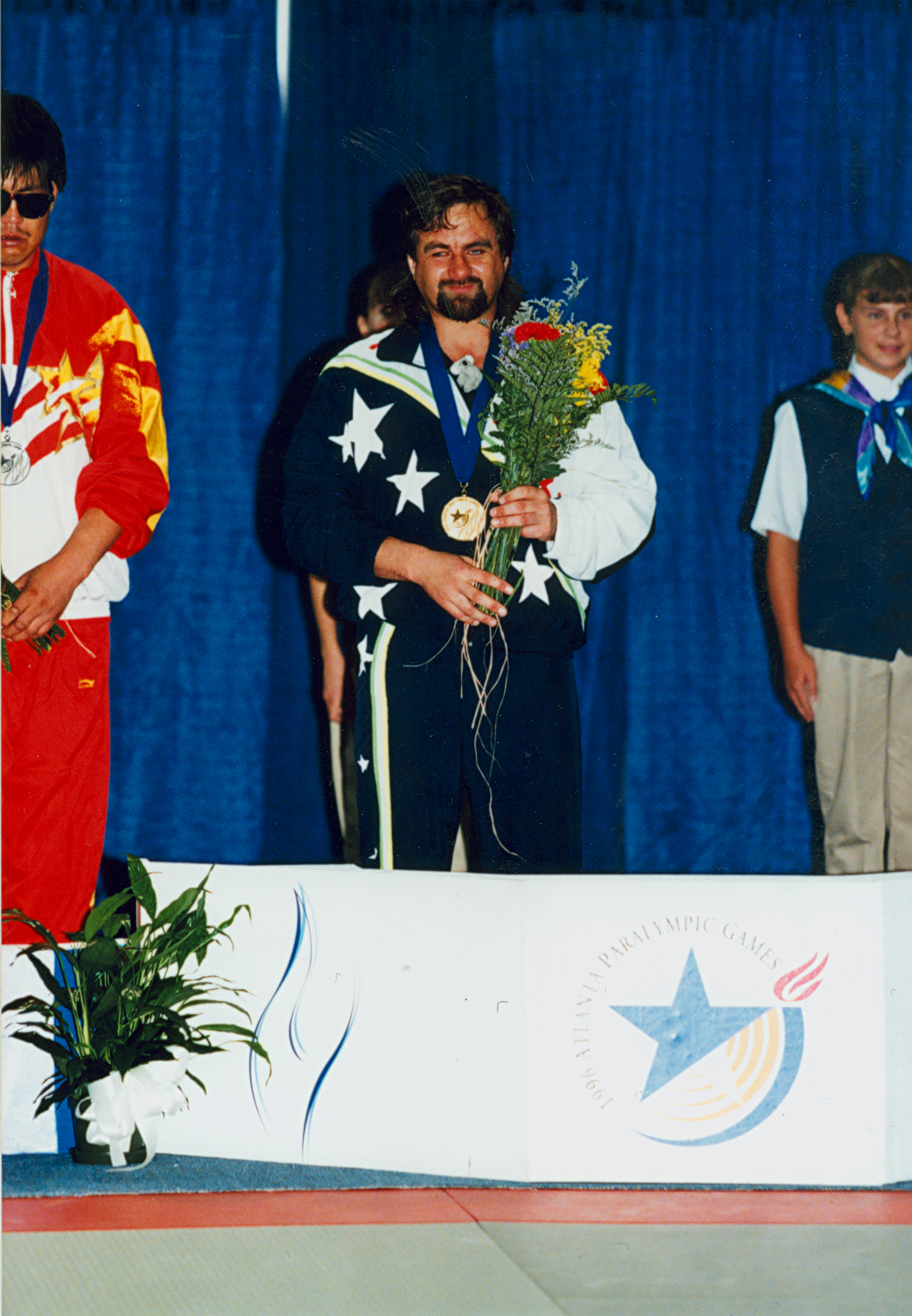 Australian judoka Anthony Clarke after receiving his gold medal in the men's 95kg class at the Atlanta 1996 Paralympic Games.